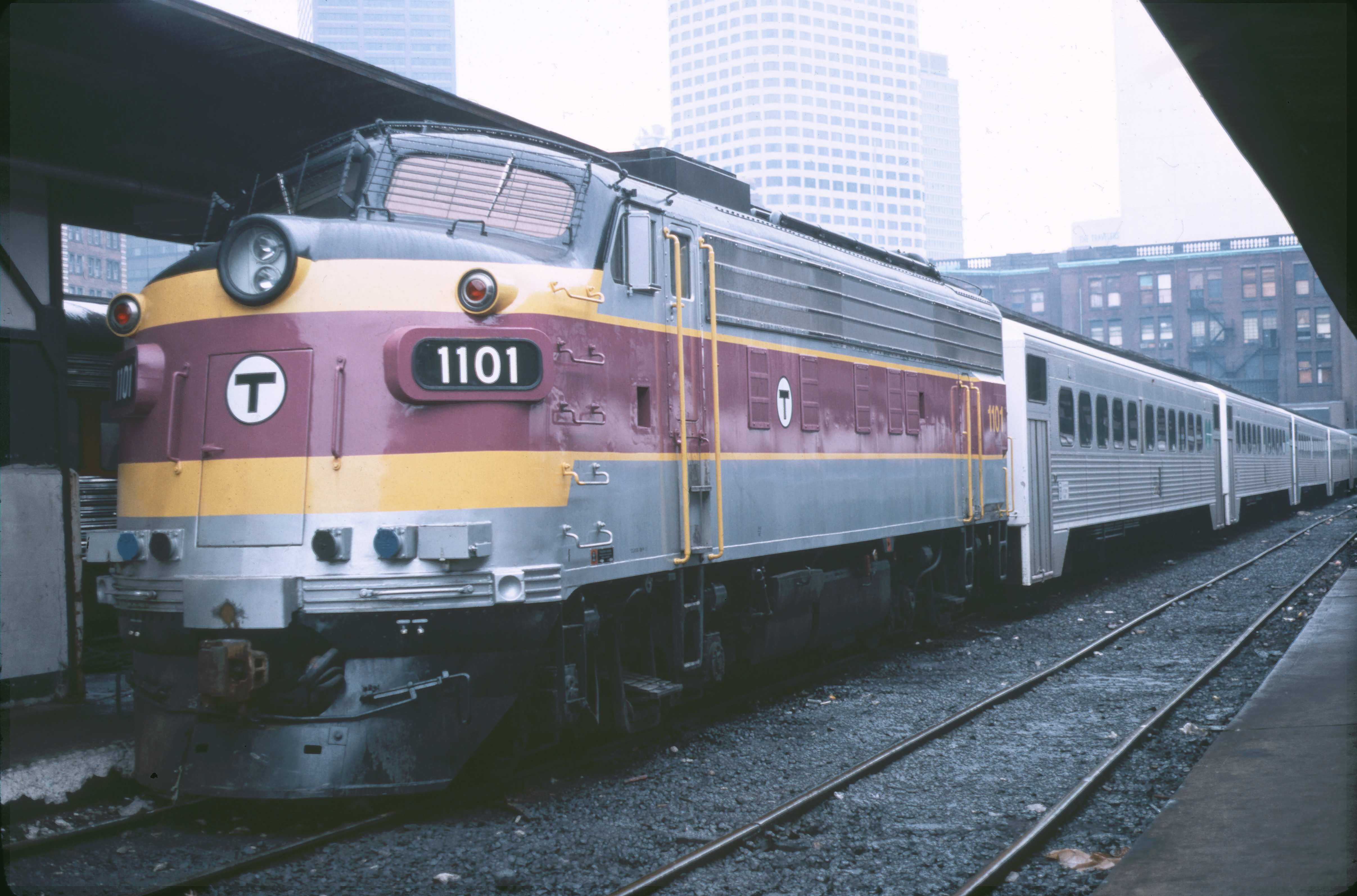 MBTA 1101 heads a train with GO Transit coaches (leased from 1978-1981 to provide additional capacity while new coaches were on order) at South Station in 1979